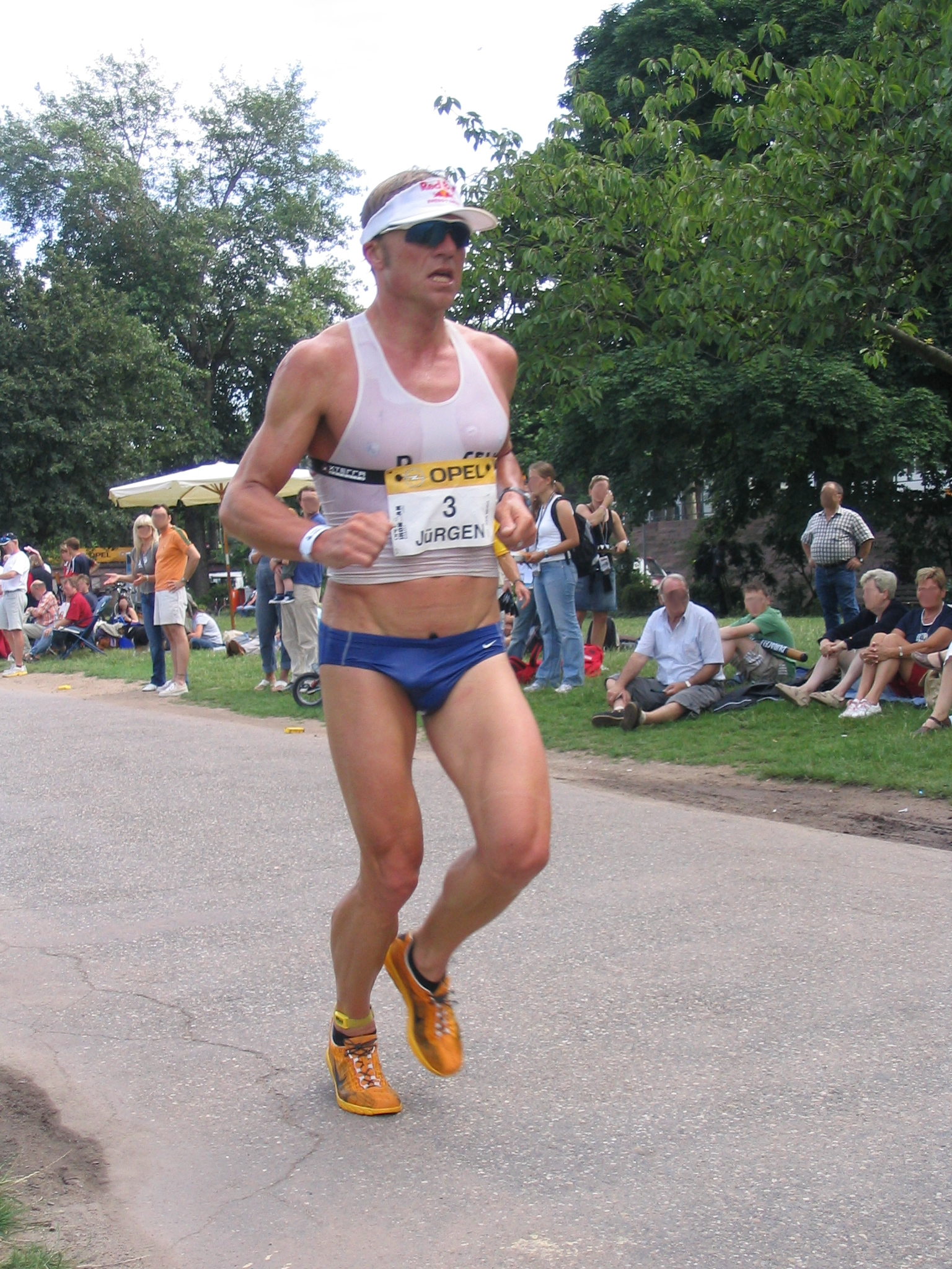 Juergen Zaeck competing in the Ironman Germany, Frankfurt 2005